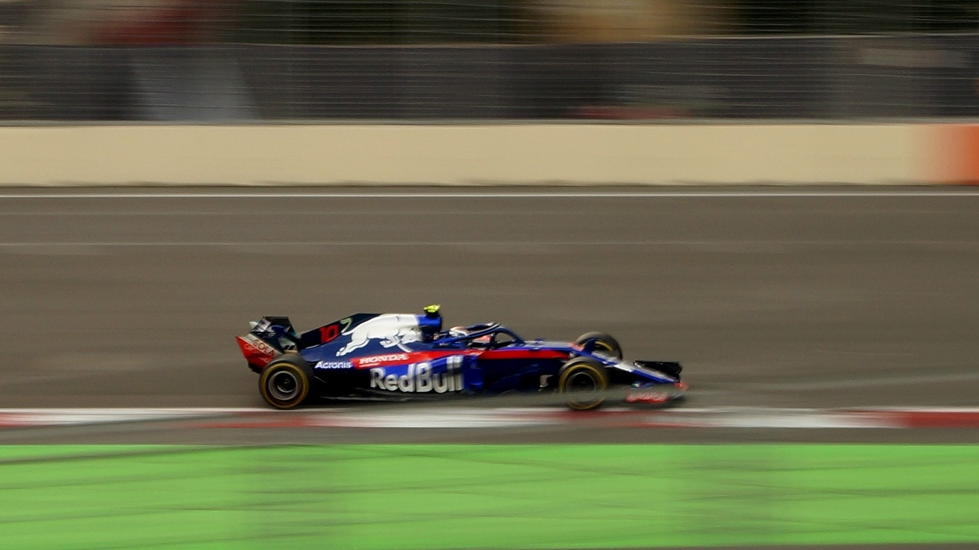 Pierre Gasly 2018 Azerbaijan GP